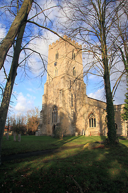 The Church of St Martin in Exning near Newmarket, Suffolk, England. The medieval church is a Grade I listed building.